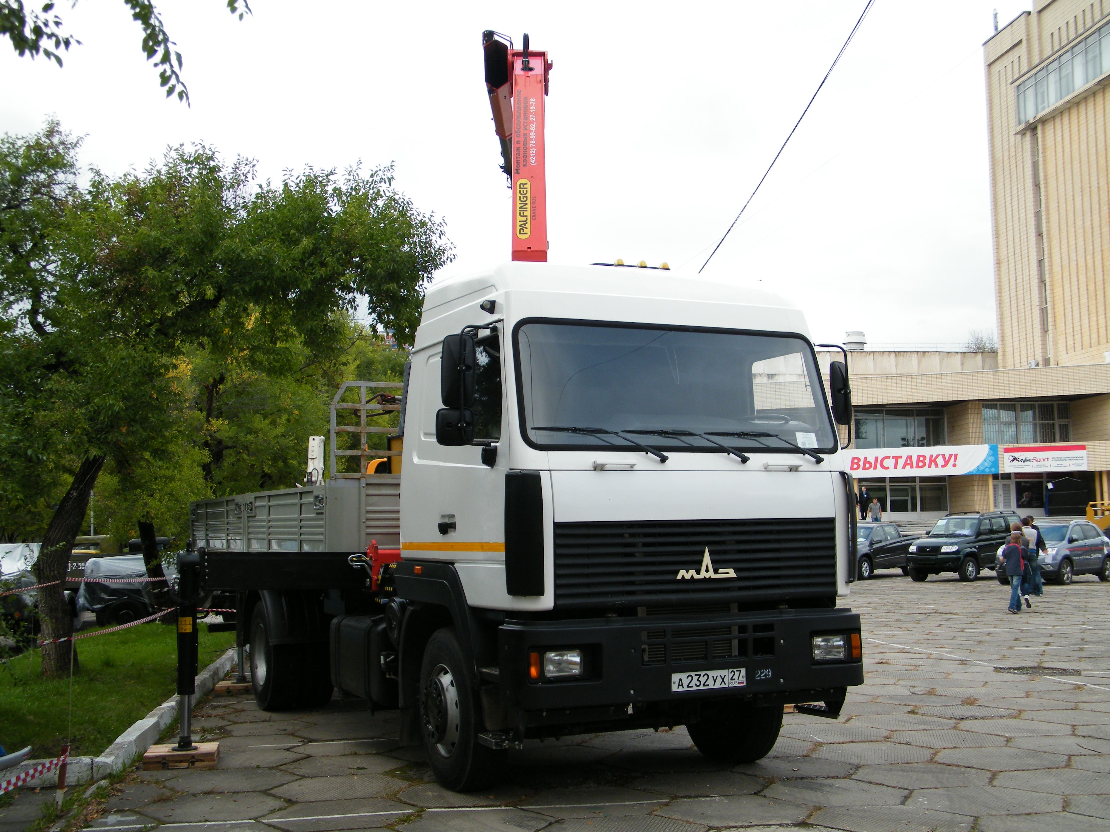 Exhibitions in Khabarovsk